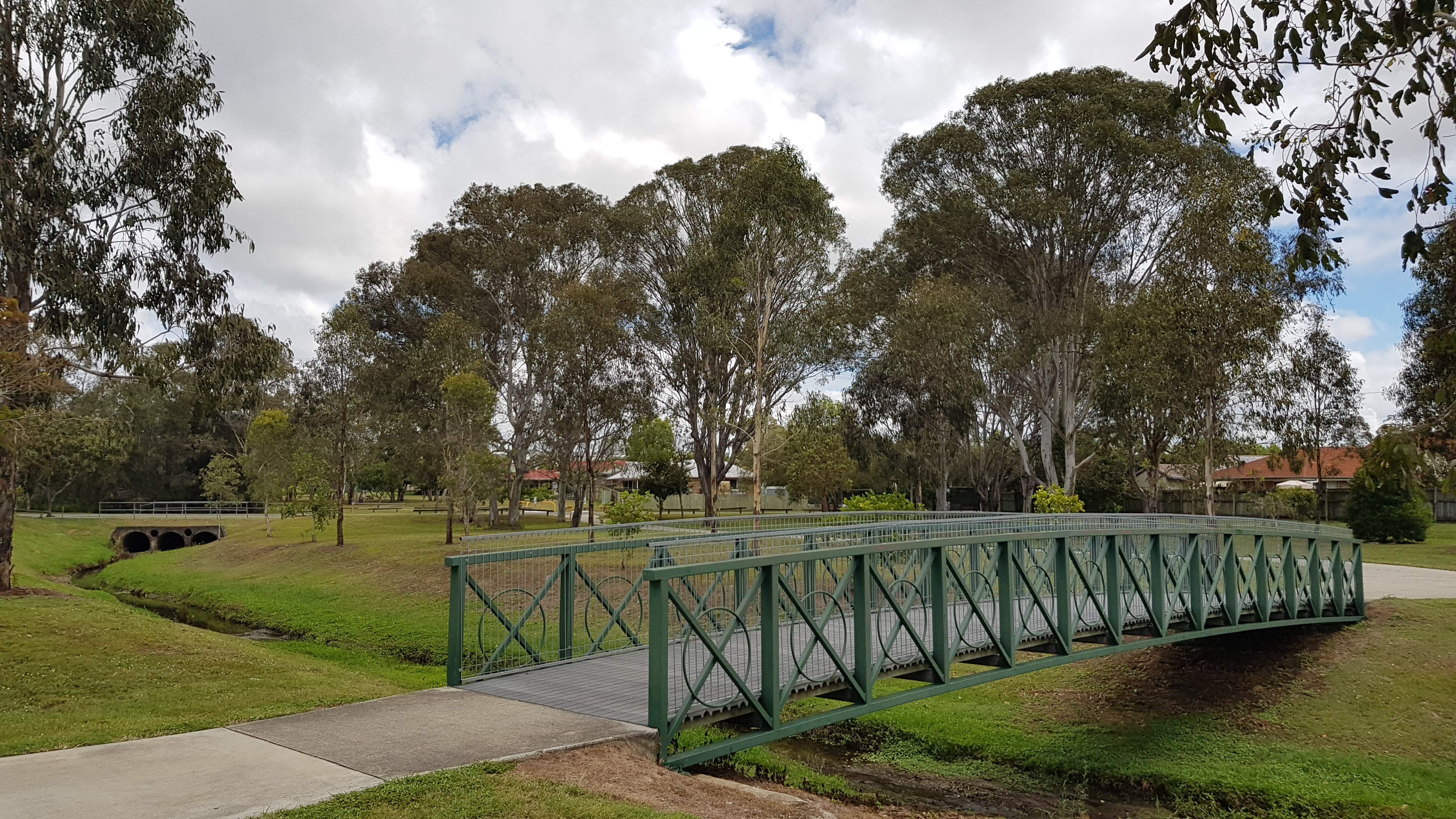 Photograph of Robtrish Street Park in Manly West, Queensland